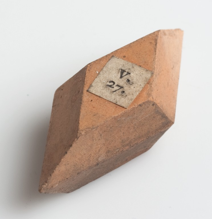 One of the 448 crystal models of unglazed porcelain, made in Paris about 1780 by Romé de L'Isle: the complete collection was bought for Teylers Museum by Martinus van Marum in 1785.